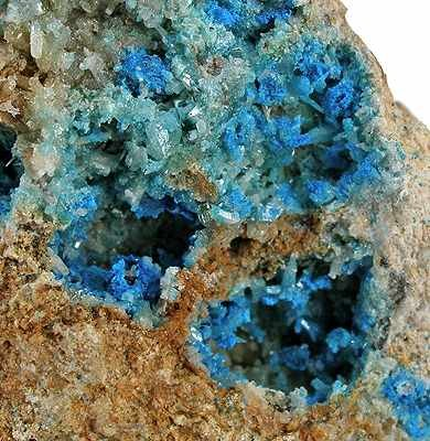 Penfieldite, Boleite, Cotunnite Locality: Sierra Gorda District, Tocopilla Province, Antofagasta Region, Chile (Locality at ) Size: 12.8 x 7.9 x 6.4 cm. A rich and large specimen of these rare species, from new finds in Chile. There are veins scattered all over the specimen, with interesting study material throughout. Collected 10 km from Sierra Gorda Station. Ex. Dr. Mark Feinglos Collection.